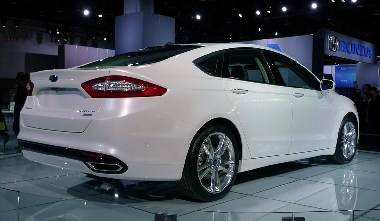 2013 Ford Fusion unveiled at the January 2012 NAIAS, Detroit